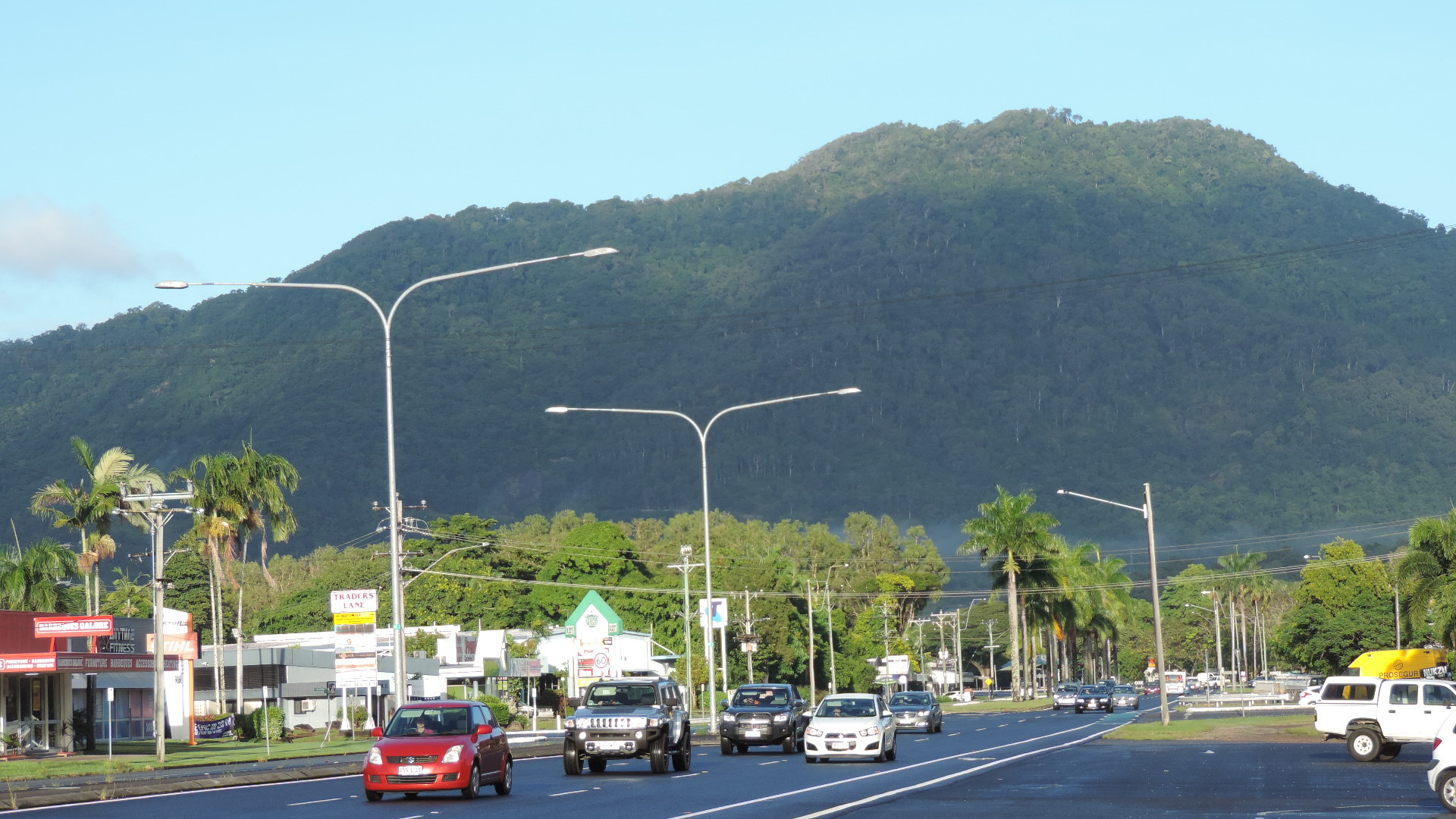 Commercial strip along Anderson Street, Manunda, Cairns, 2018